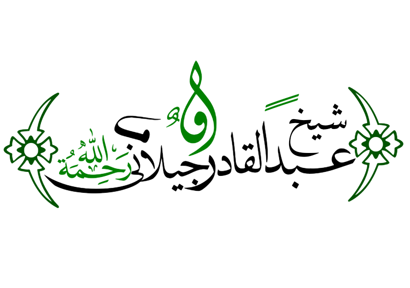 Abdul Qadir Gilani Calligraphy name